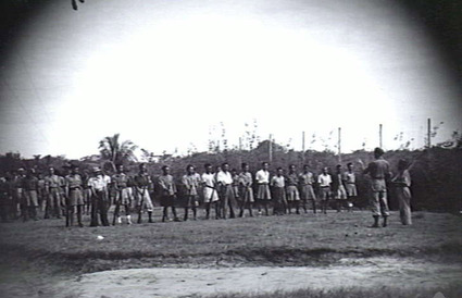 From the Australian War Memorial website. Major G. S. Carter holding a parade in Borneo. Photograph 112178 AWM Caption: Physical description: Black & white Summary: Marudi, Borneo, 20 July 1945. Major Carter, Special Reconnaissance Detachment [sic], holding a parade of natives at the headquarters of D Company, 2/17 Infantry Battalion.